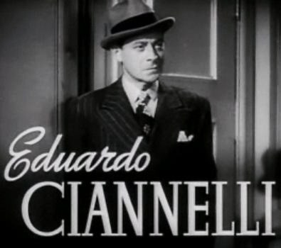 Eduardo Ciannelli in Society Lawyer (1939) - trailer (cropped screenshot)